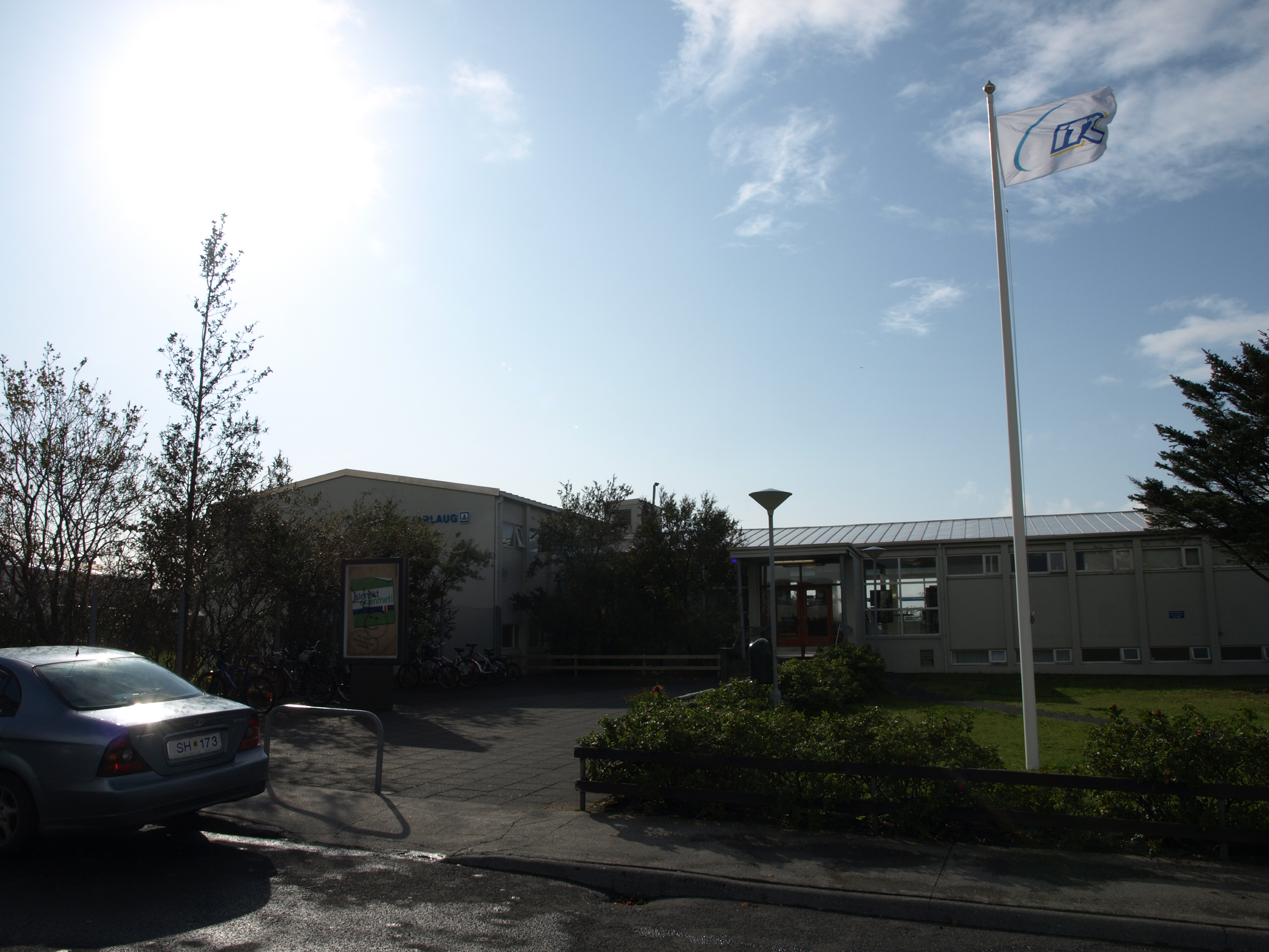 Photograph of the exterior entrance to Vesturbæjarlaug (translates as "The Swimming Pool in western side of town") in Reykjavík, Iceland.